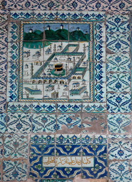 18th-century tile mosaic at Sabil-kuttab of Abd al-Rahman Katkhuda — Cairo. Egypt